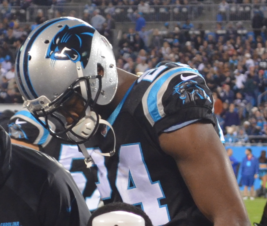 Carolina Panthers cornerback, Josh Norman, in a game against the New England Patriots on November 18, 2013.